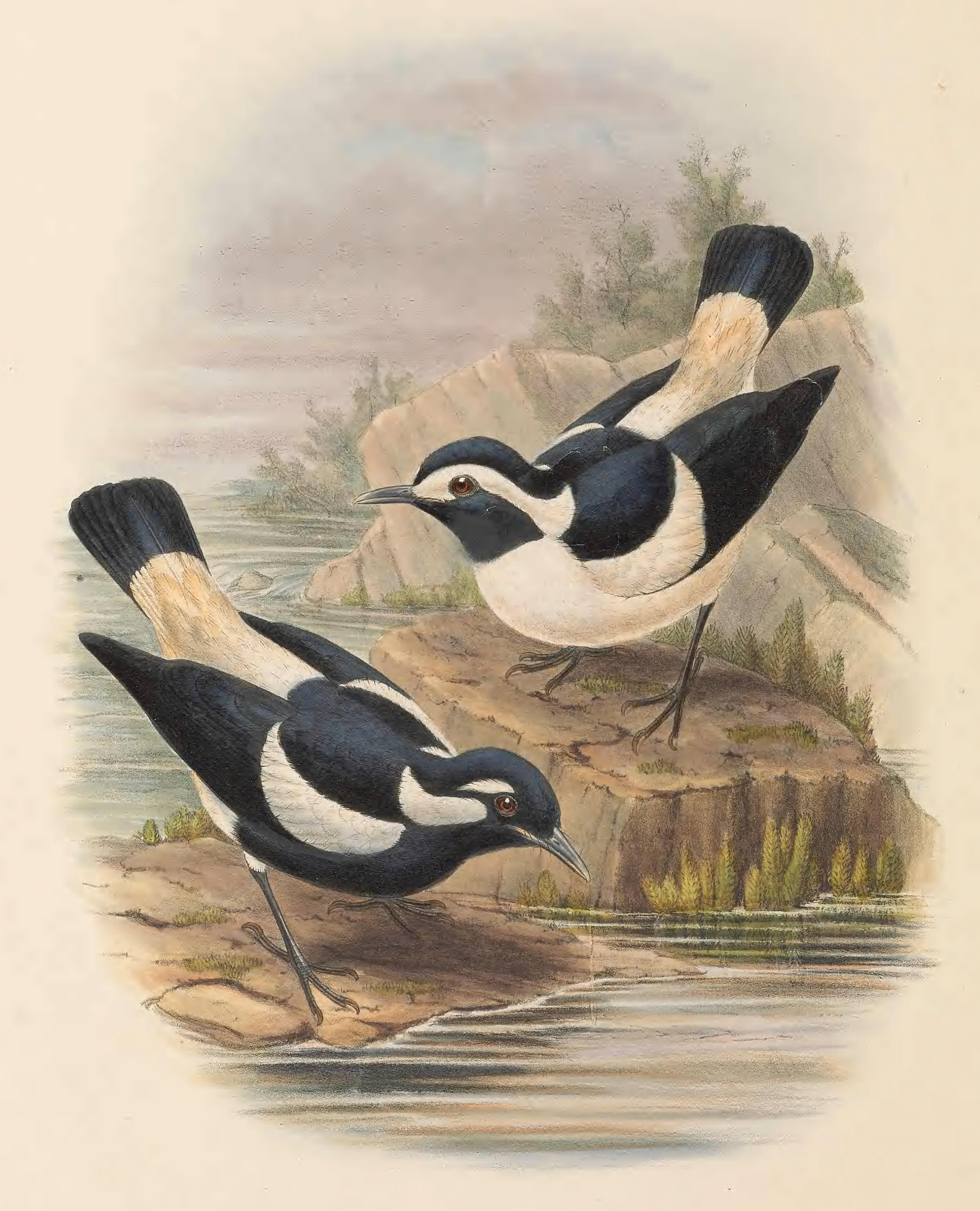 Grallina bruijni in The birds of New Guinea and the adjacent Papuan islands, including many new species recently discovered in Australia. v.3 (Plate 11).